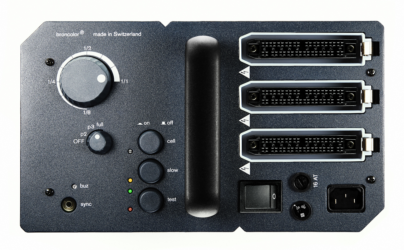 Broncolor Primo Power Pack